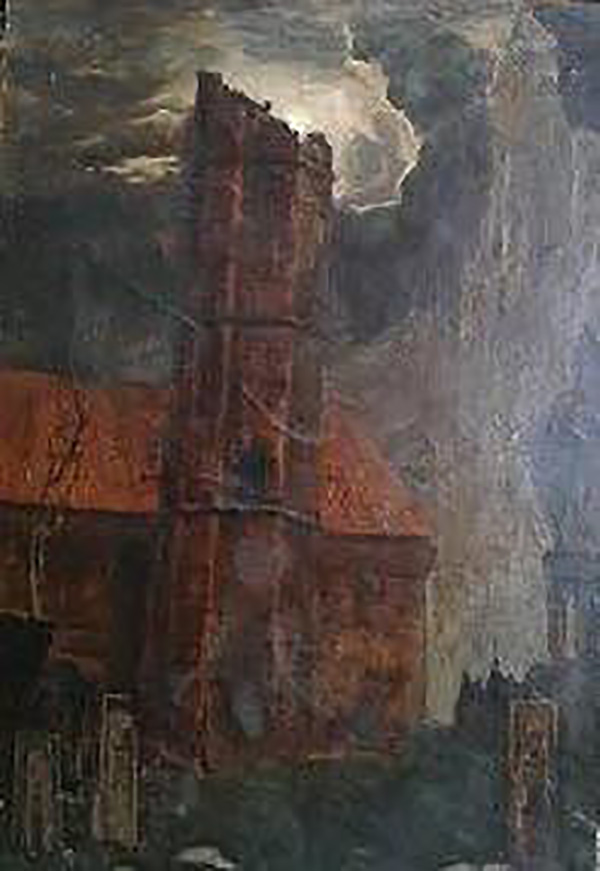 Painting of a ruined mosque in Kalinaul, Dagestan, Russia.